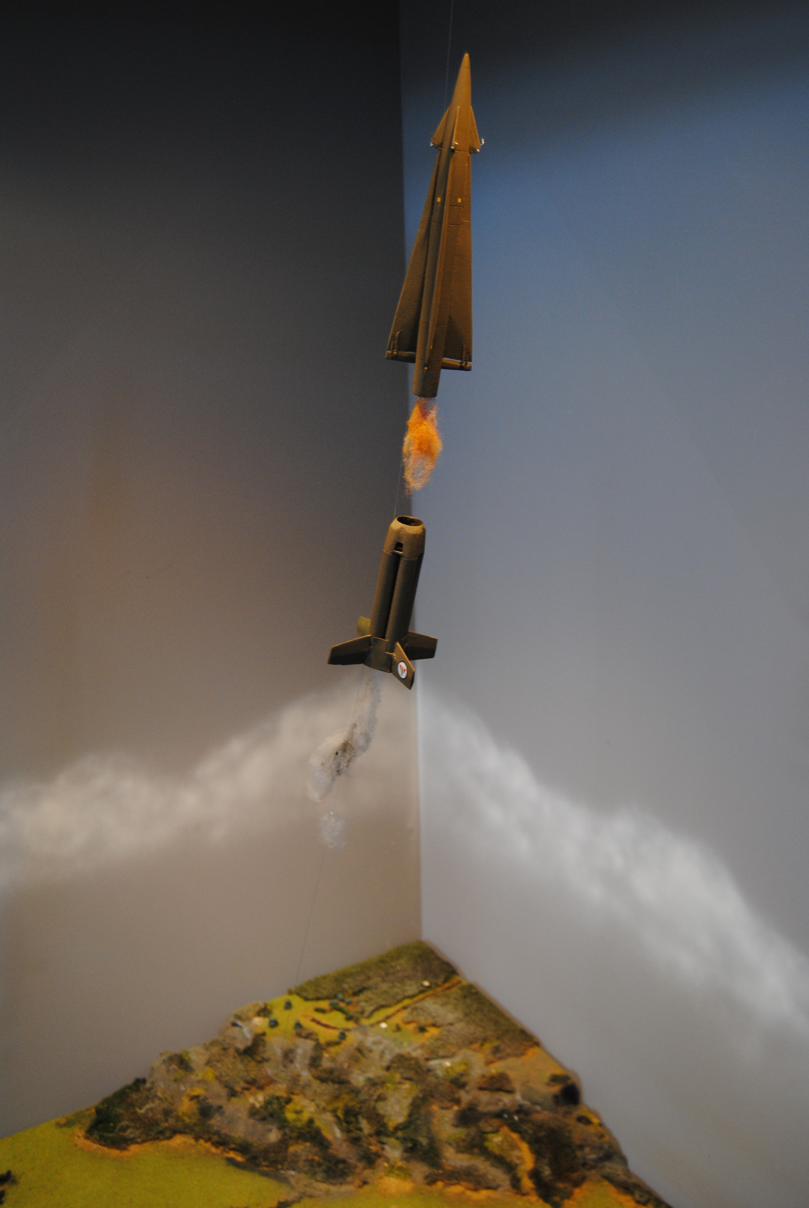 MIM-3 Nike Ajax rocket launch illustration